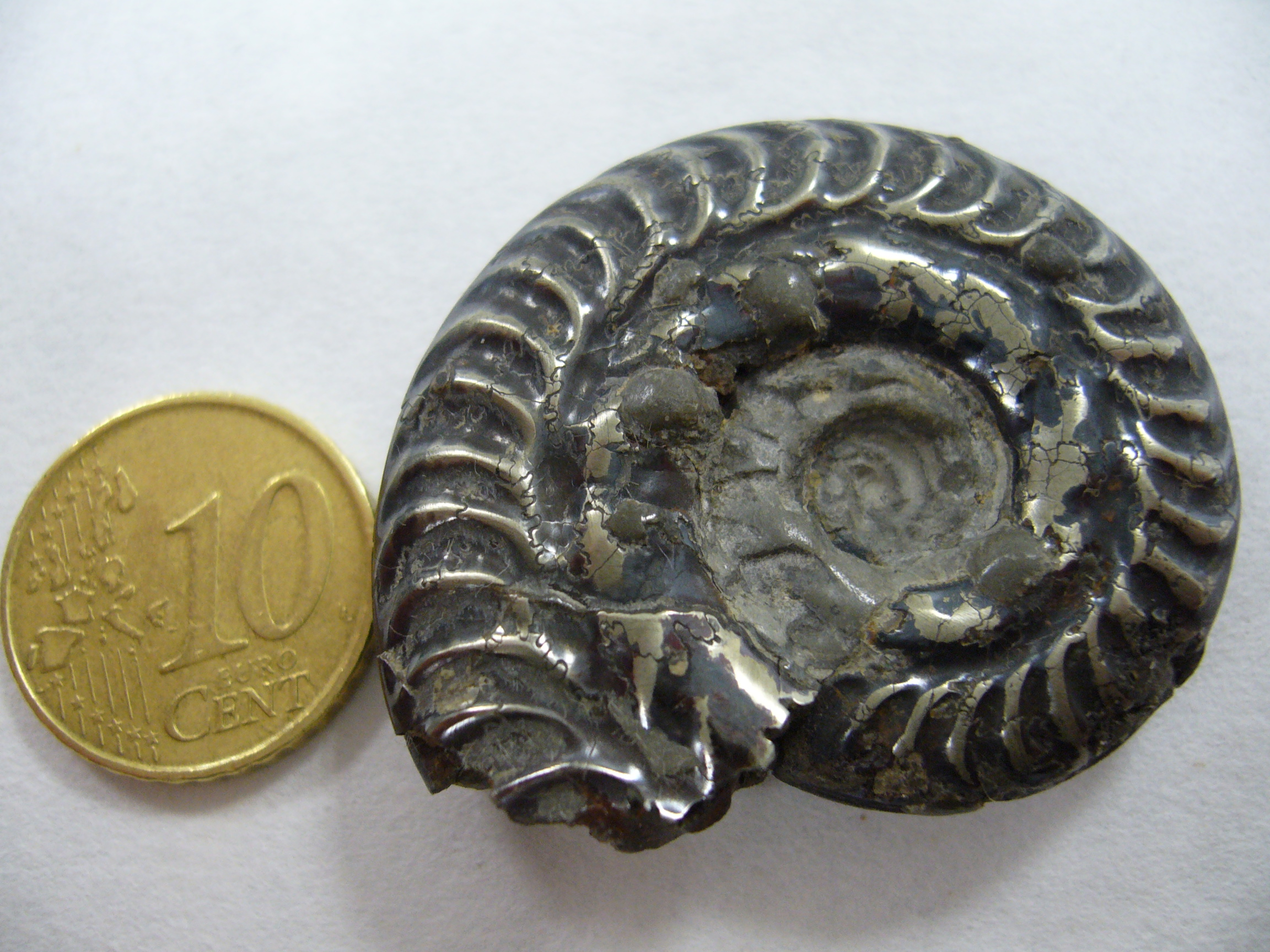 Hildoceras biffrons fossil (Jurassic) found in Aveyron (France), in a laboratory of practices of the Faculty of Sciences of the University of Corunna.